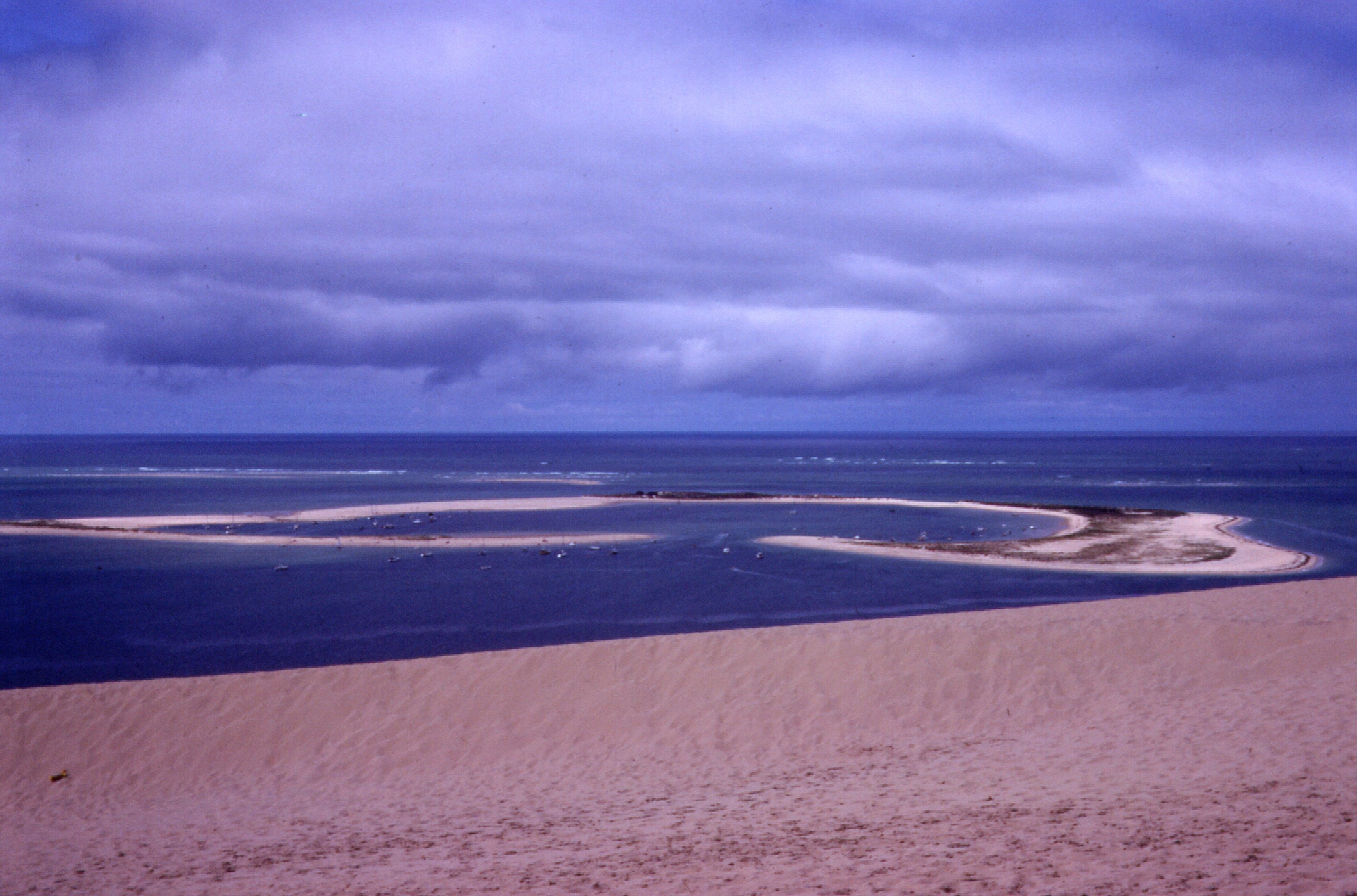 Description: Dune du Pyla Source: Own work Photographer: Joe Quimby, 1987